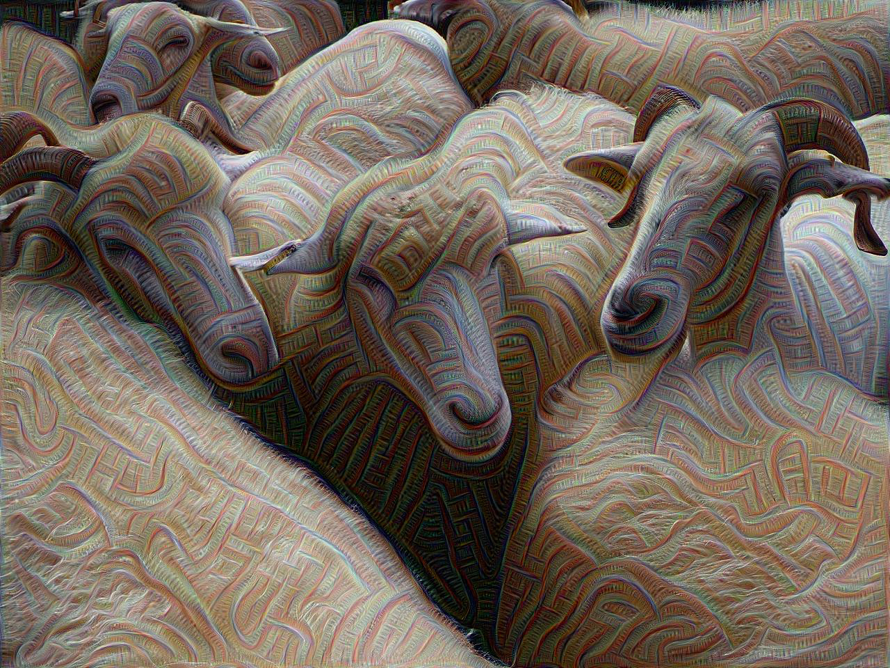 An image of sheep, modified by deep dream technology.